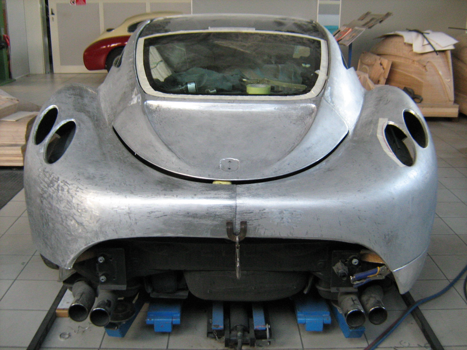 Each Diva is completely hand built in aluminum